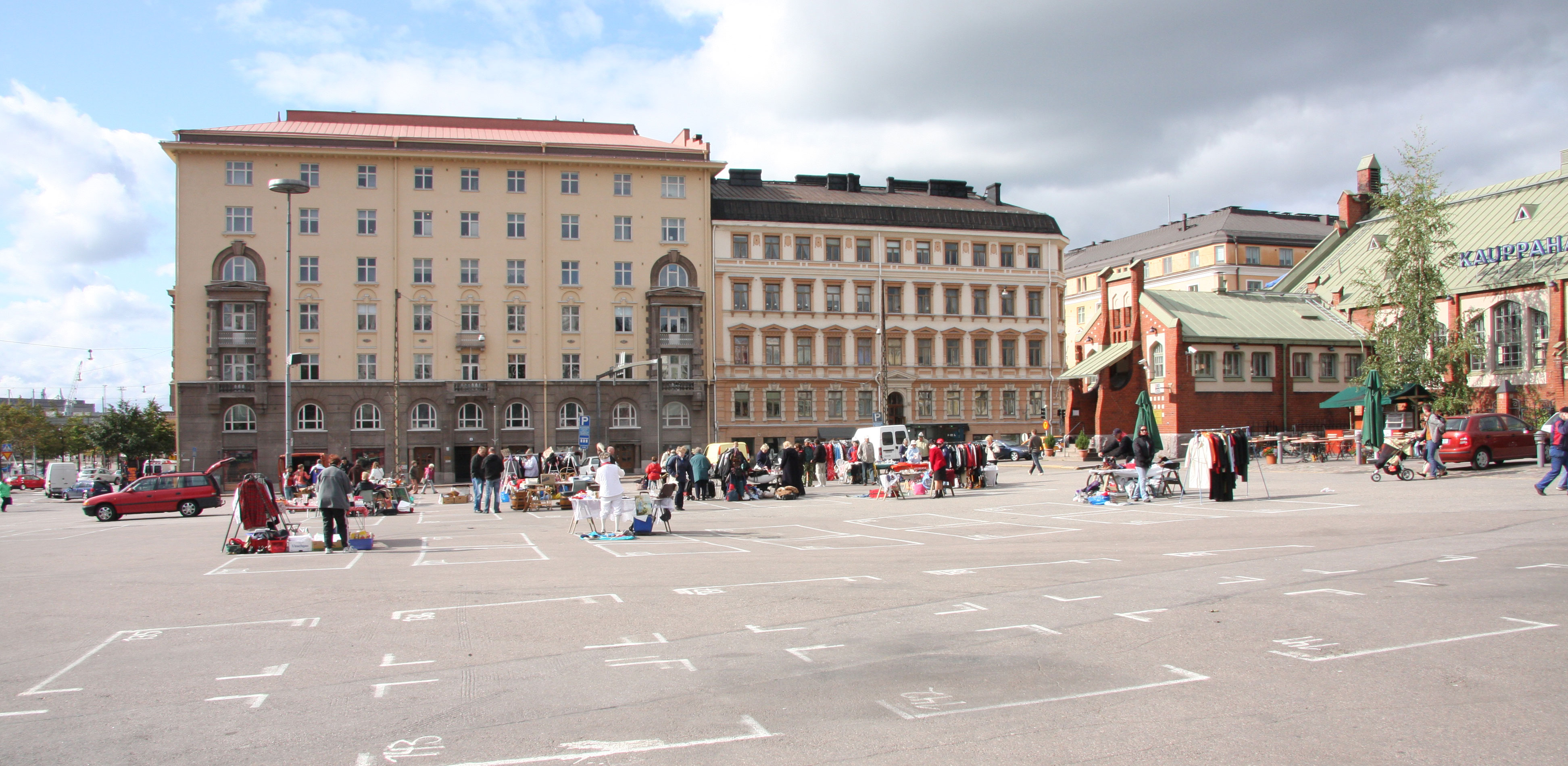 Hietalahdentori, a square in Helsinki